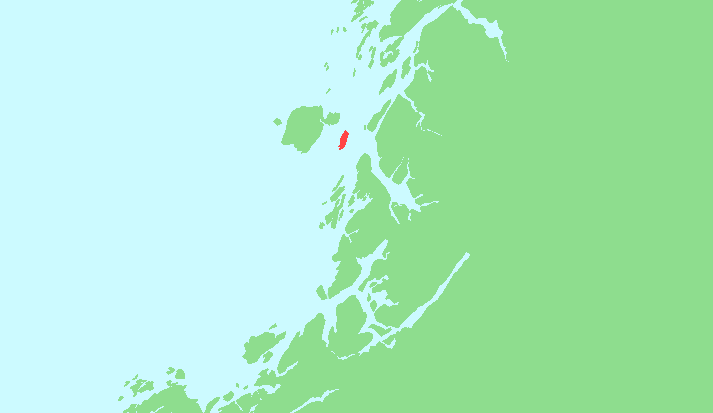 Locator map of Ylvingen, Nordland, Norway